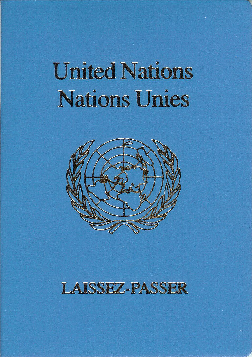 Scan of Laissez-passer issued by the United Nations.